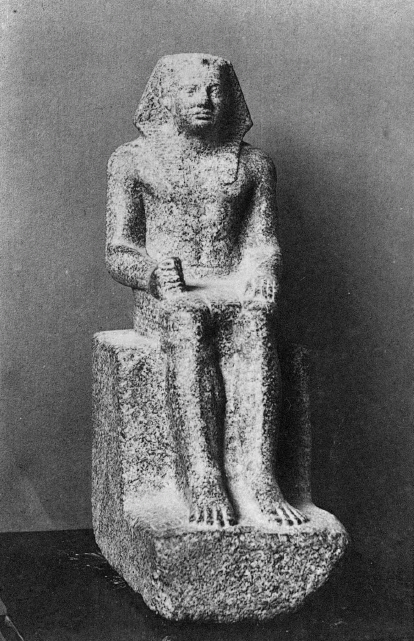 Statue of Niuserre, probably from Memphis, now in the Egyptian Museum, Cairo (CG 38)